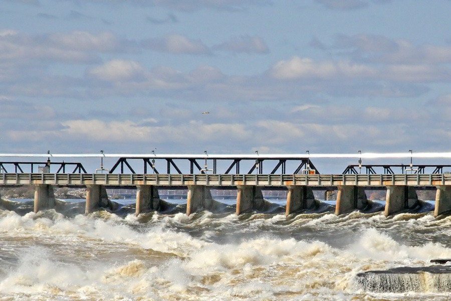 Hydro-Québec's Hull-2 hydro power station in Gatineau. The Ottawa River is still turbulent from the spring rise.